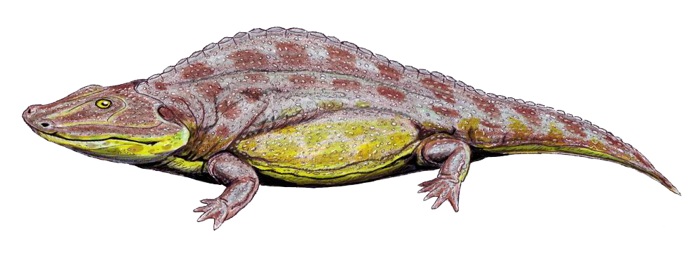 Sclerothorax